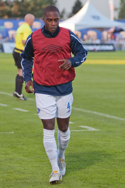 Photo of soccer player, Chris Williams.